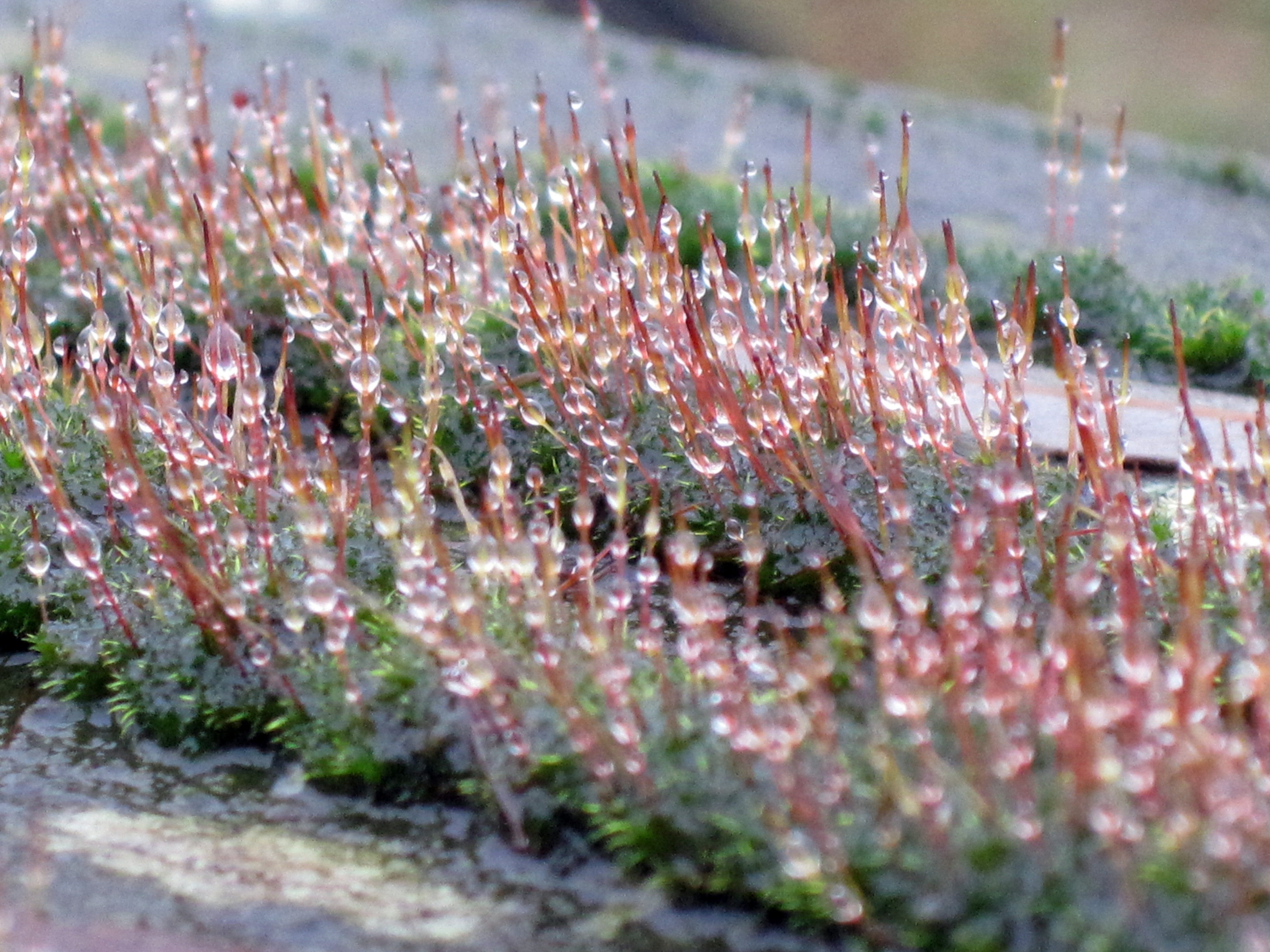 Ceratodon purpureus (purple horn toothed moss), Arnhem, the Netherlands